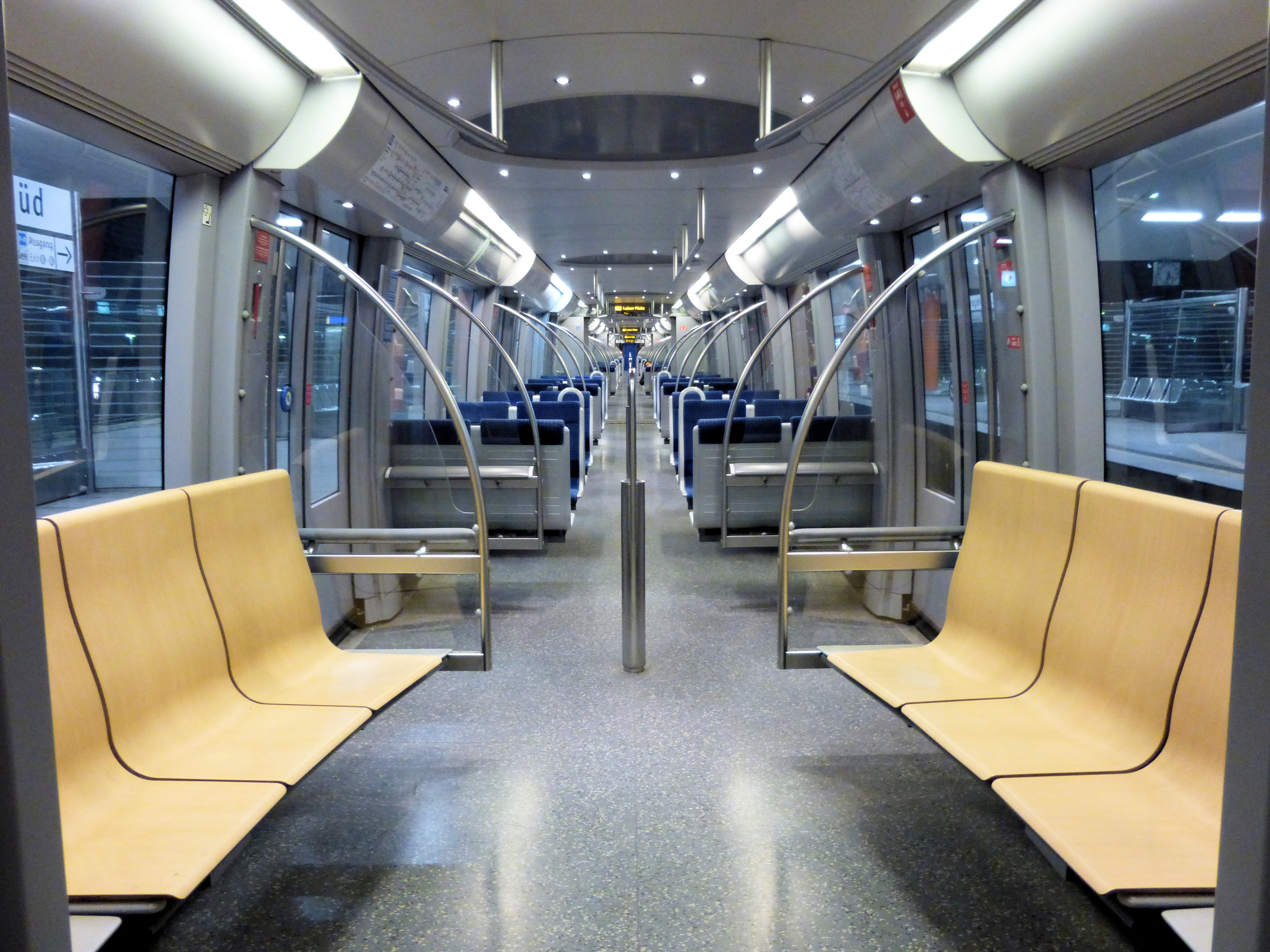 C train of Munich U-Bahn